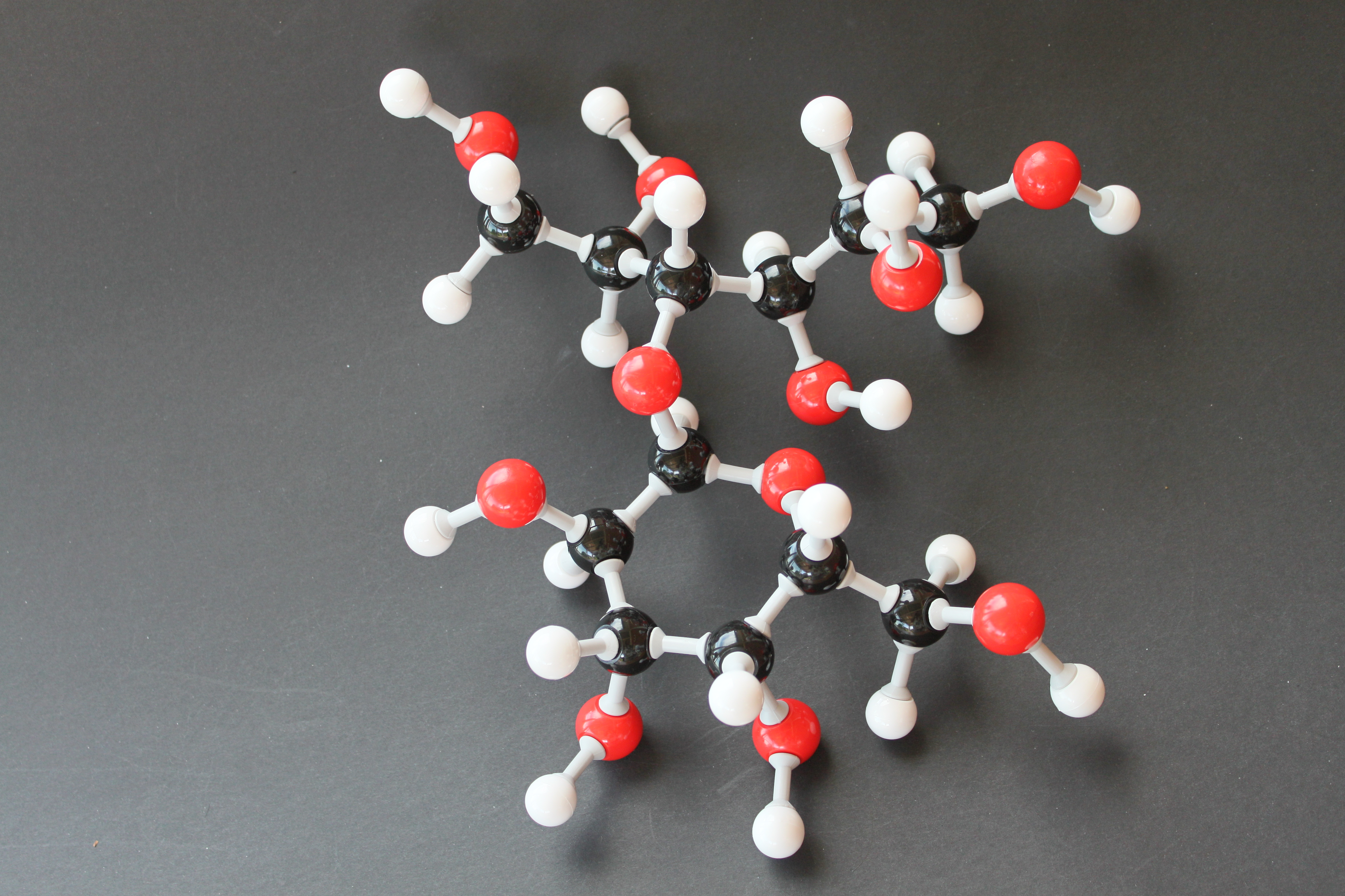 Chemical structures constucted with Prentice Hall Molecular Model Set for General Organic Chemistry